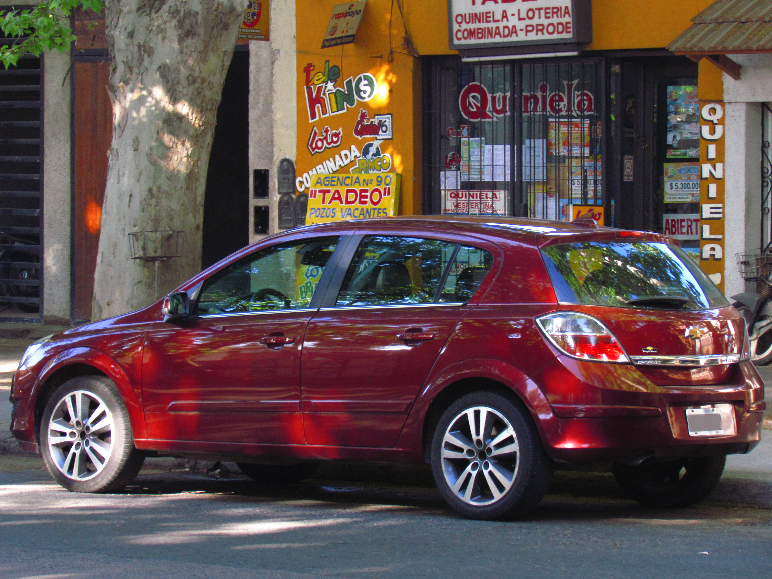 Chevrolet Vectra GT 2009